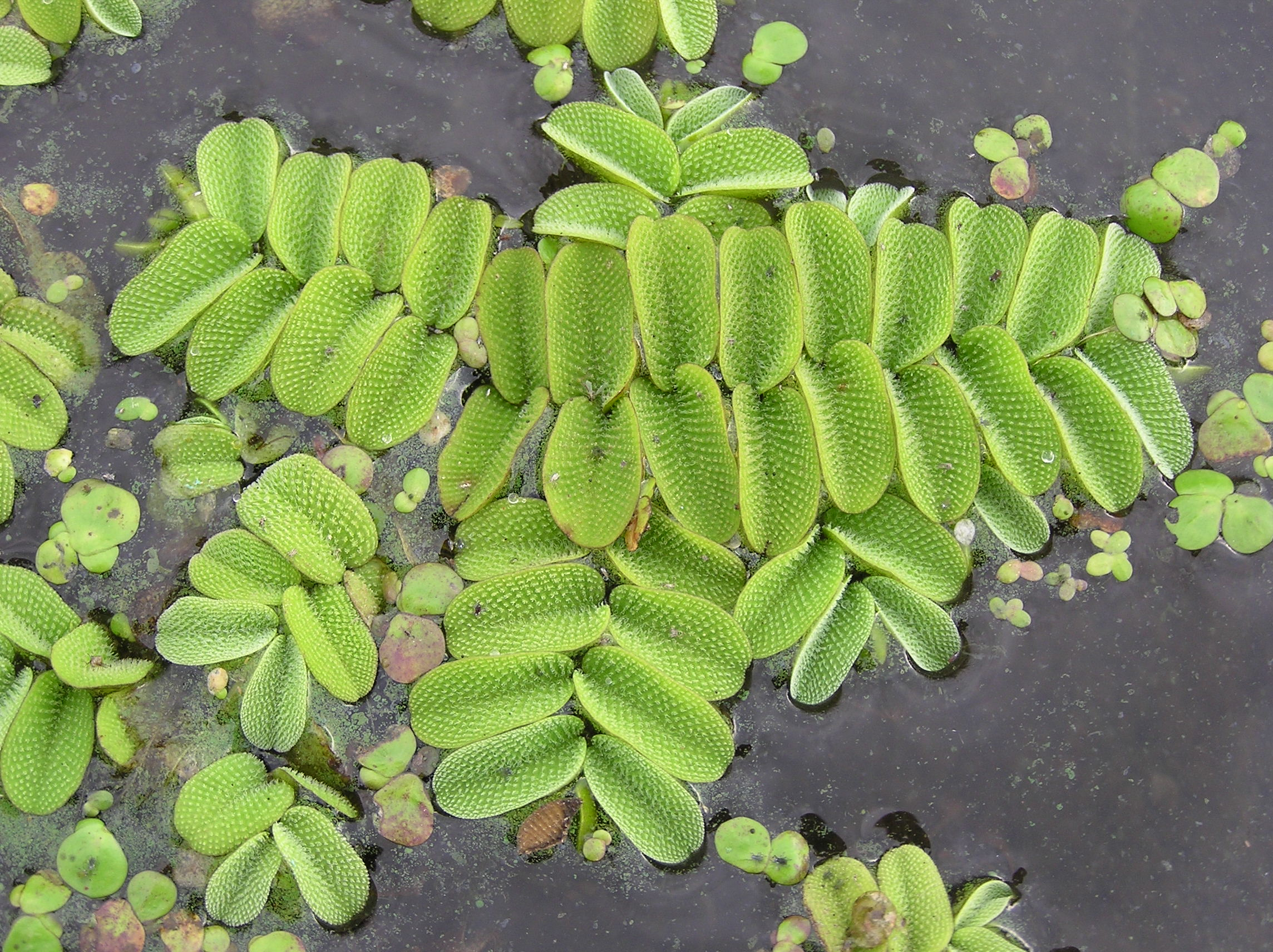 Salvinia natans (L.) All. (Floating Fern, Floating Watermoss, Floating Moss); habitus. Habitat: а backwater. Volgograd Reservoir (Volga river), Engelssky District, Saratov Oblast, Russia.